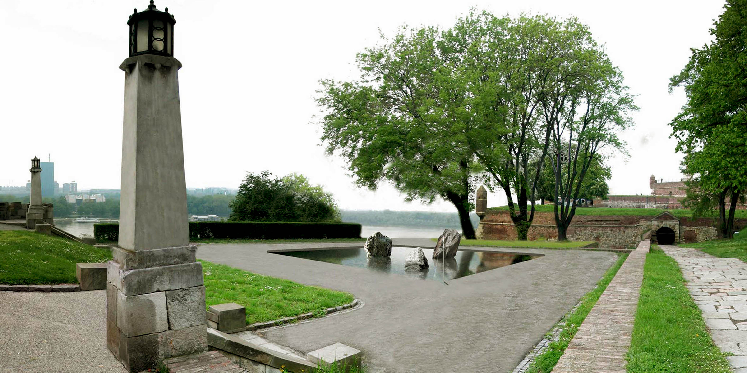 Djordje Alfirevic - Japanese Fountain at Kalemegdan Fortress